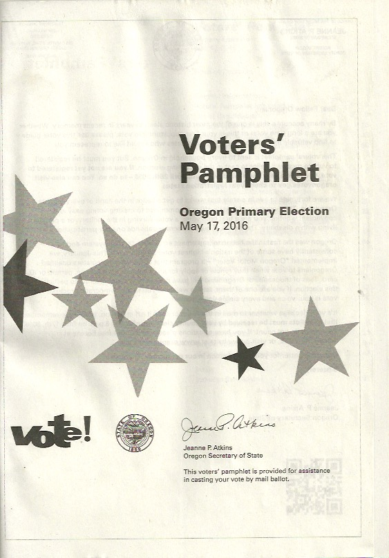 Oregon Voters' Pamphlet for May 2016 primaries, mailed to voters before the election. This material is in the public domain, because a) I release the scan into the public domain, and b) the cover of the pamphlet is composed entirely of non-literary works and shapes/text too simple to be copyrighted, as well as a public domain signature and the State Seal of Oregon, which is in the public domain because it was published before 1923.